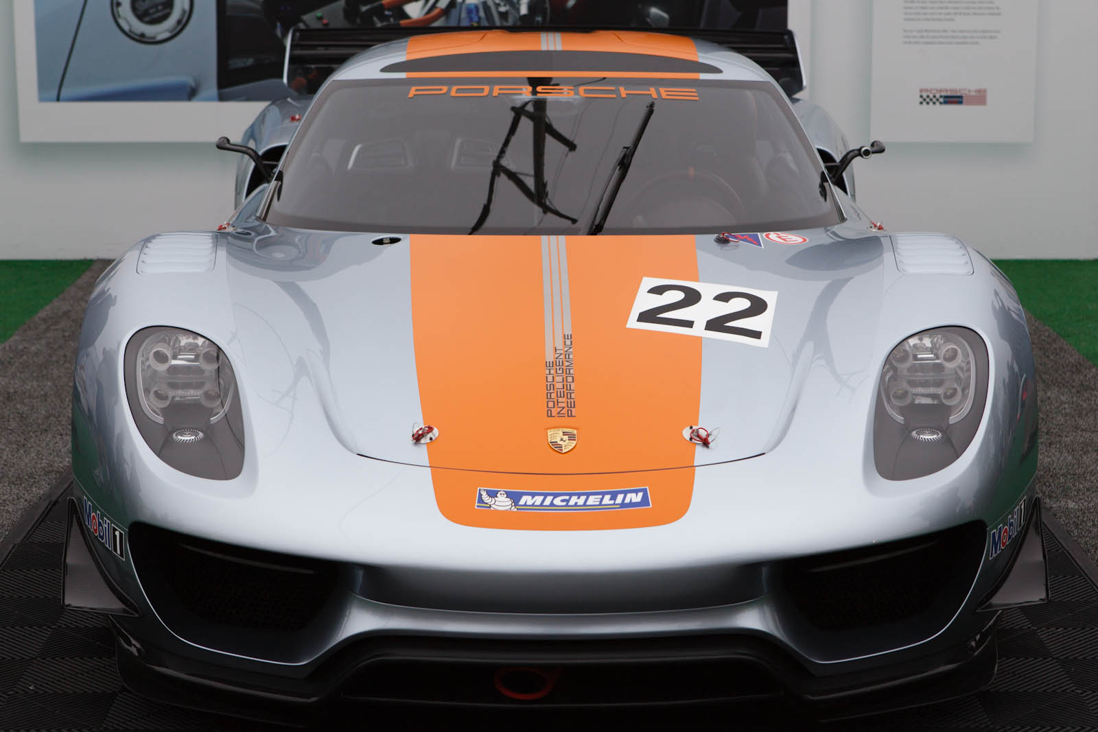 Front view of a Porsche 918 RSR (#22) seen at the Porsche Rennsport Reunion IV.